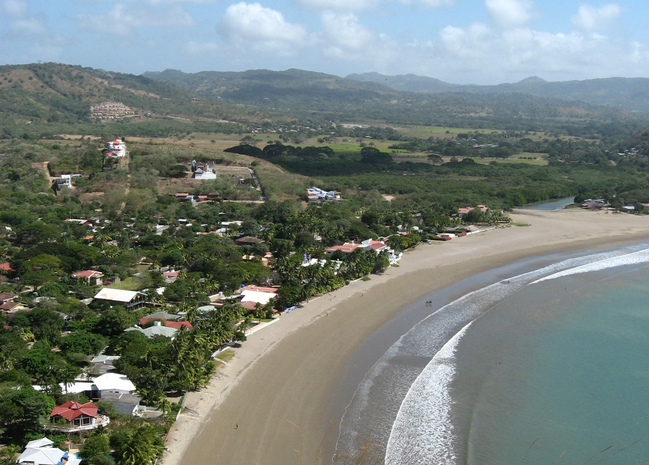 Self-taken picture of the beach at san juan del sur, nicaragua